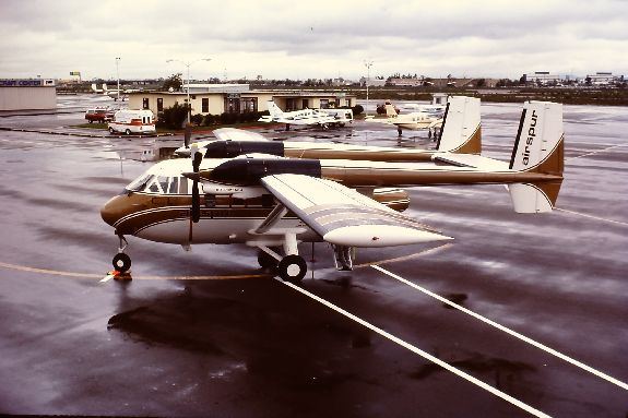 Manufacturer: Israeli Aircraft Industries Designation: Arava Airline: Airspur Serial Number: N801AE